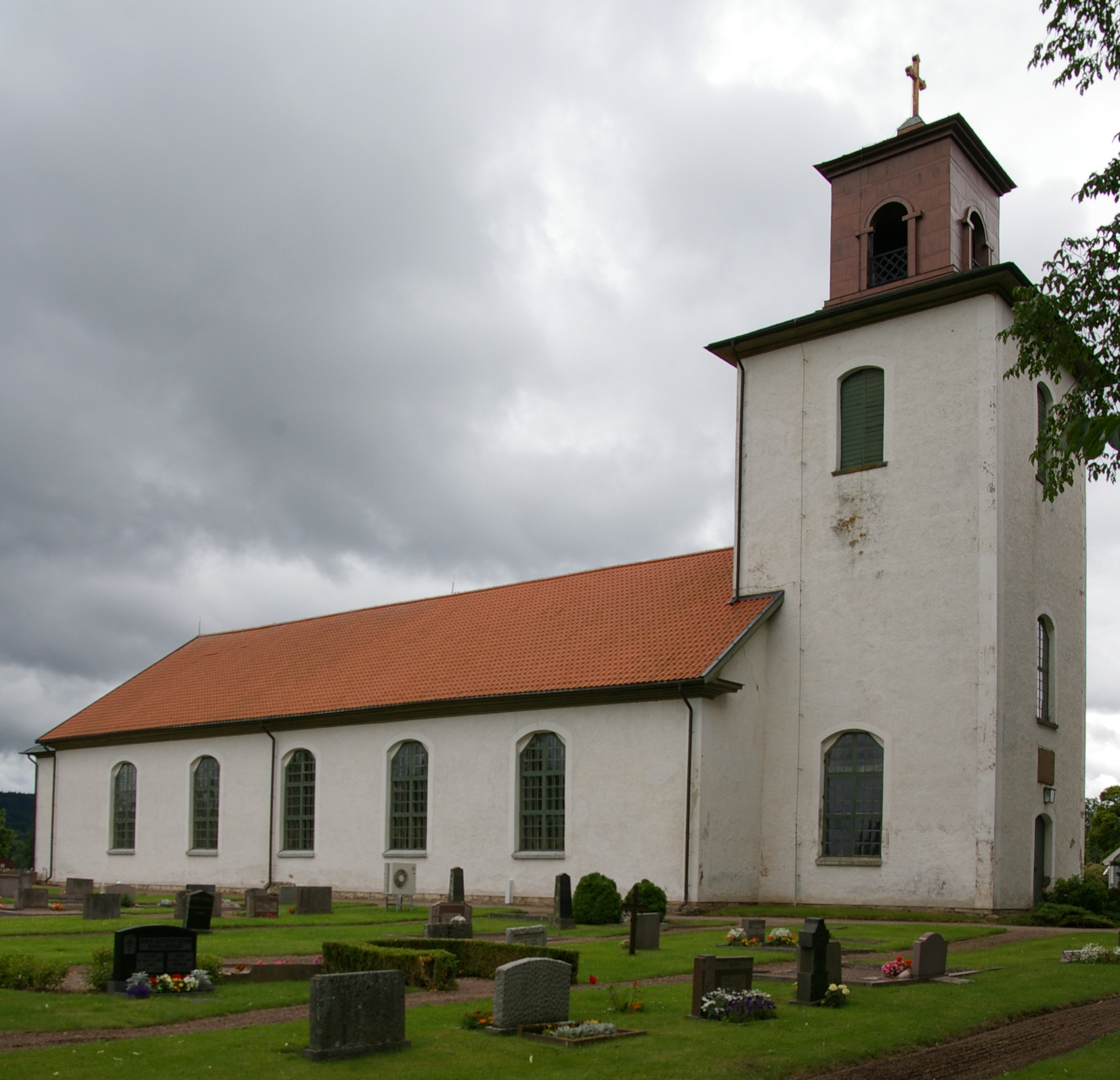 Broddetorps kyrka (Swedish:Church of Broddetorp) in Västergötland, Sweden.